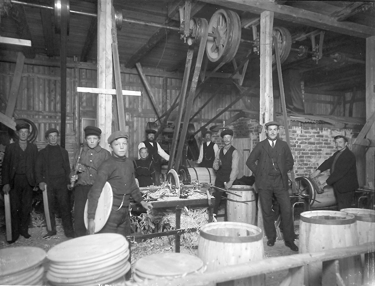 A barrel factory in Beiarn, Nordland, Norway. 1910 - 1935.